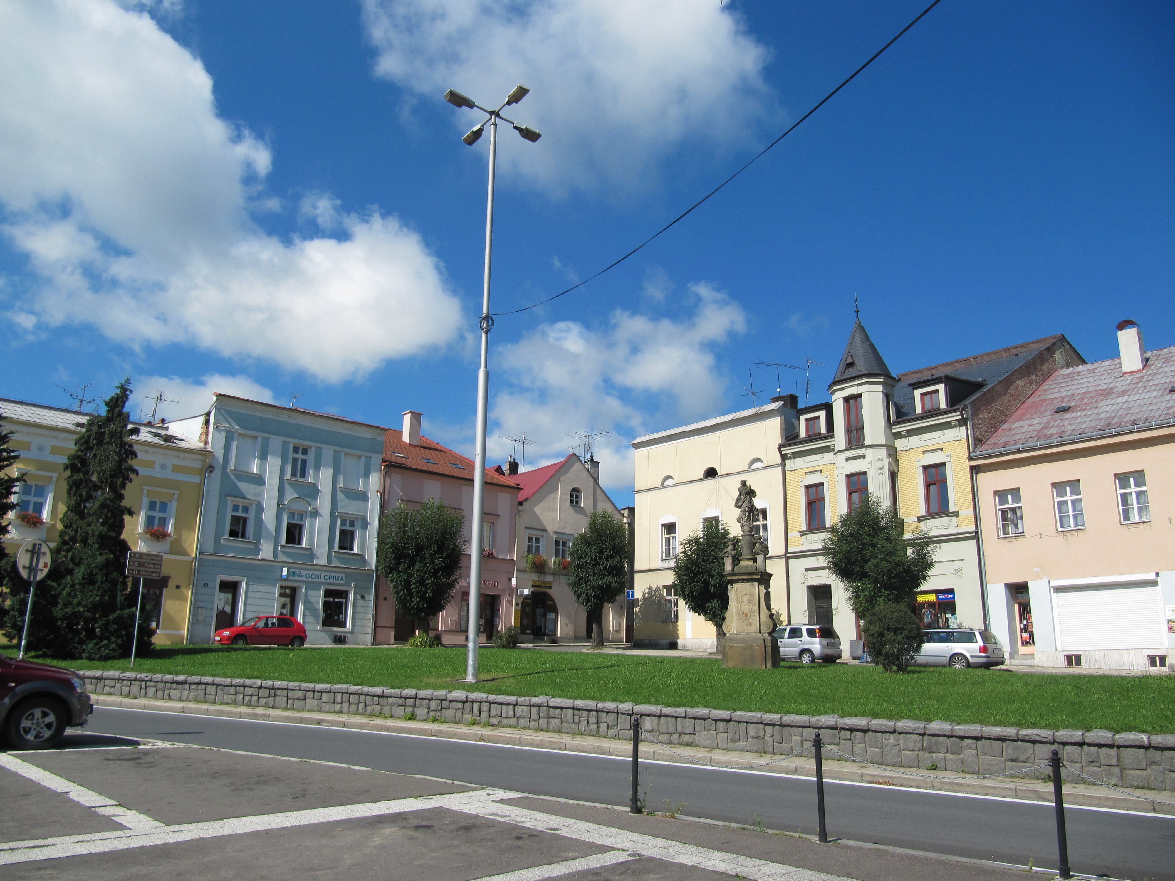 Odry in Nový Jičín District, Czech Republic. Square Masarykovo náměstí, west.